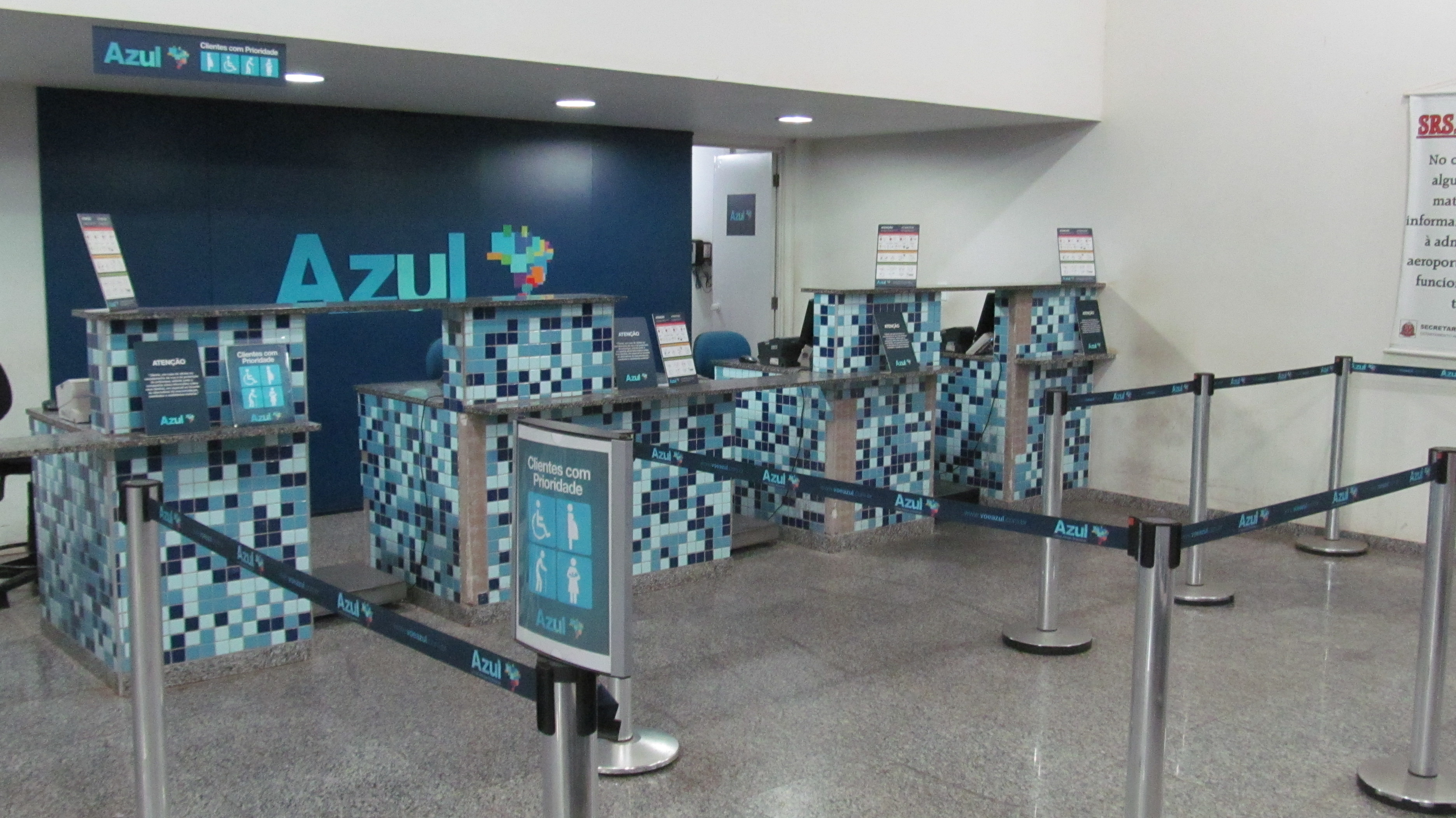 Araçatuba Airport (ARU) check-in, São Paulo, Brazil